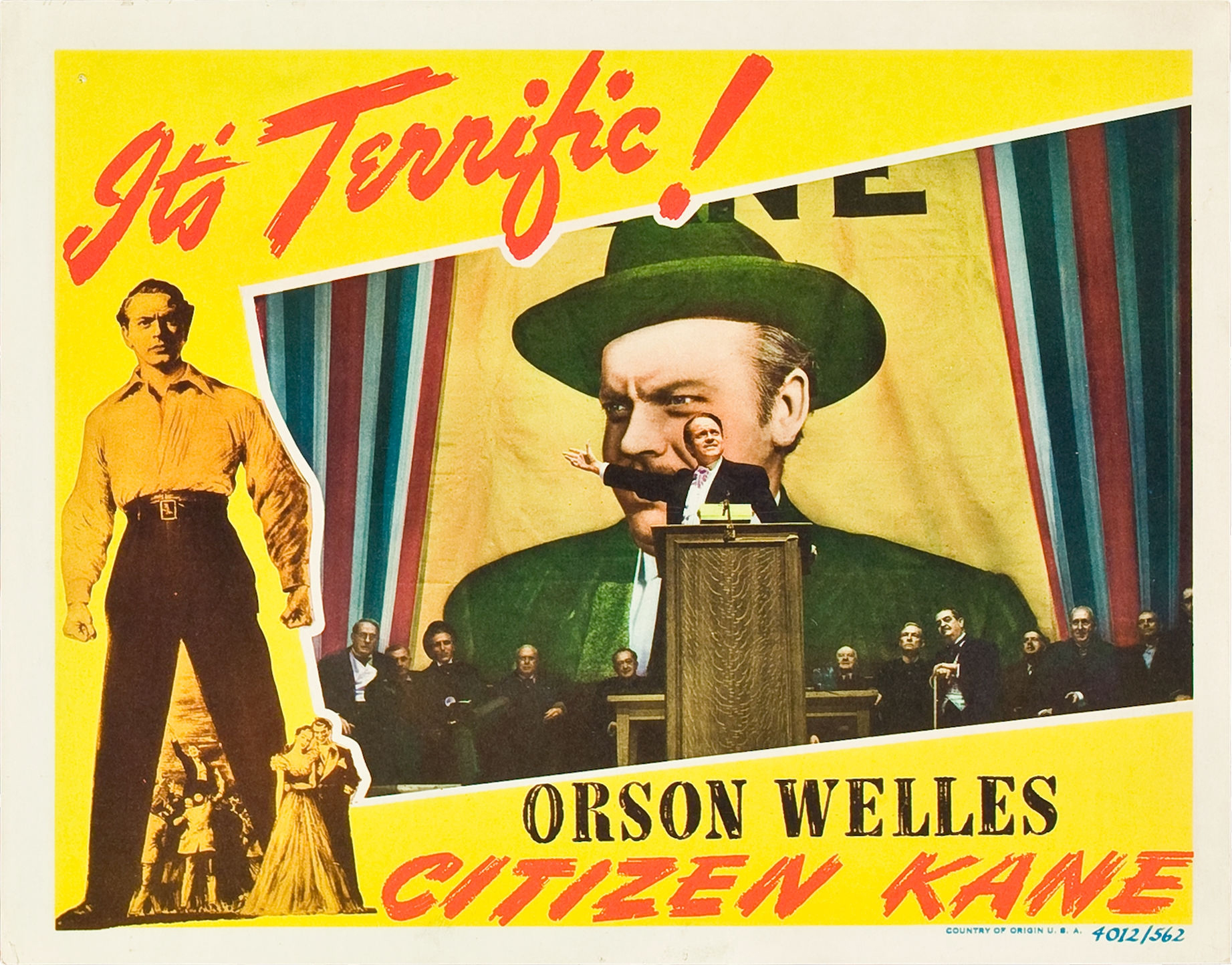 Lobby card for the 1941 film, Citizen Kane